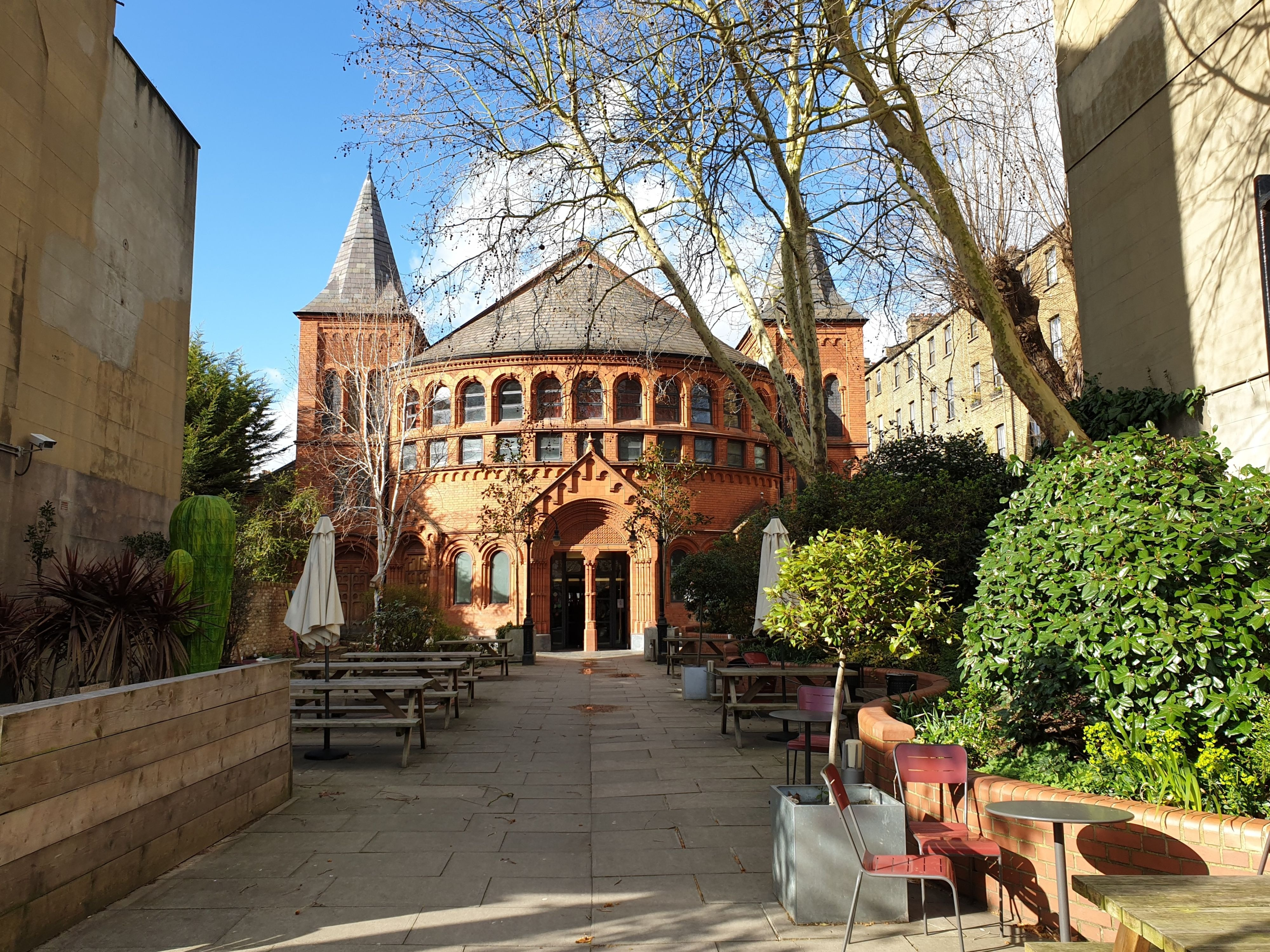 The Tabernacle, on Talbot Road in London's Notting Hill district, was originally a church, but is now a community centre.